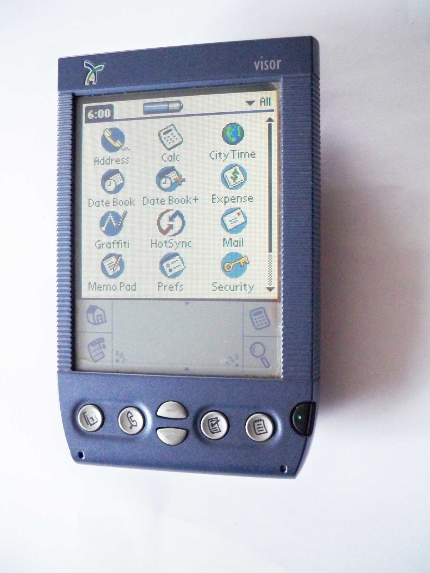 Personal Digital Assistant Handspring Visor Prism